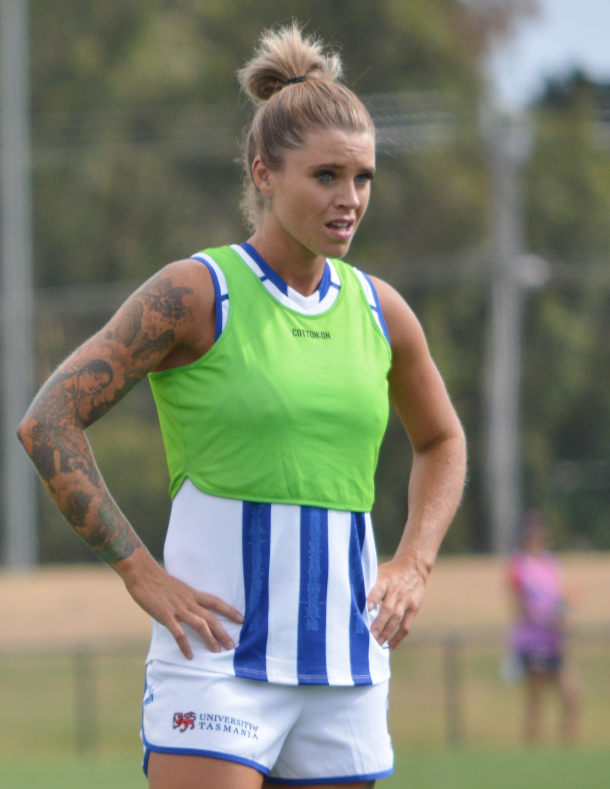 Sophie Abbatangelo with North Melbourne during an AFLW practice match against Melbourne at Casey Fields in January 2019.